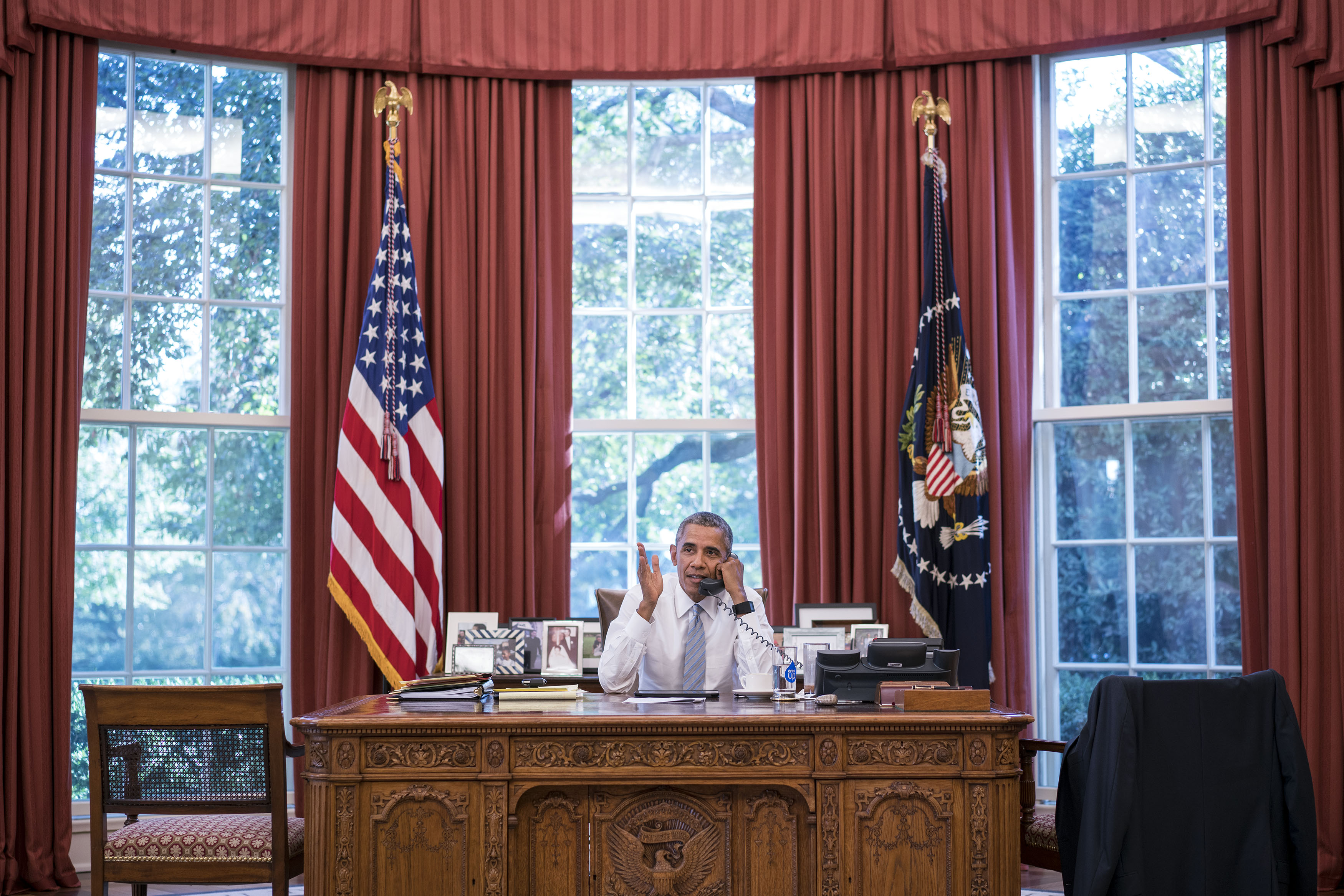 President Barack Obama talks on the phone with Cuba President Raœl Castro in the Oval Office, Sept. 18, 2015. (Official White House Photo by Pete Souza)